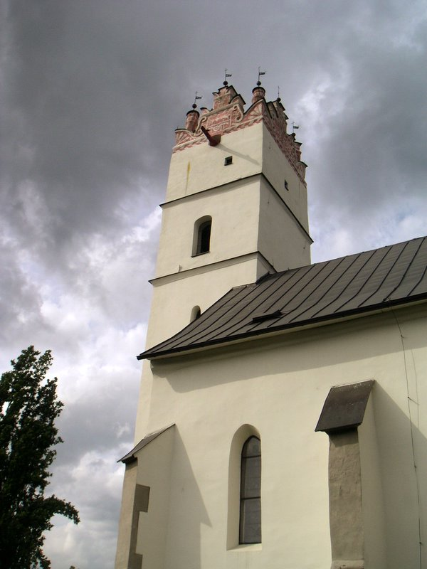 Church of St. Simon and St. Jude in Spissky Hrhov, Slovakia.